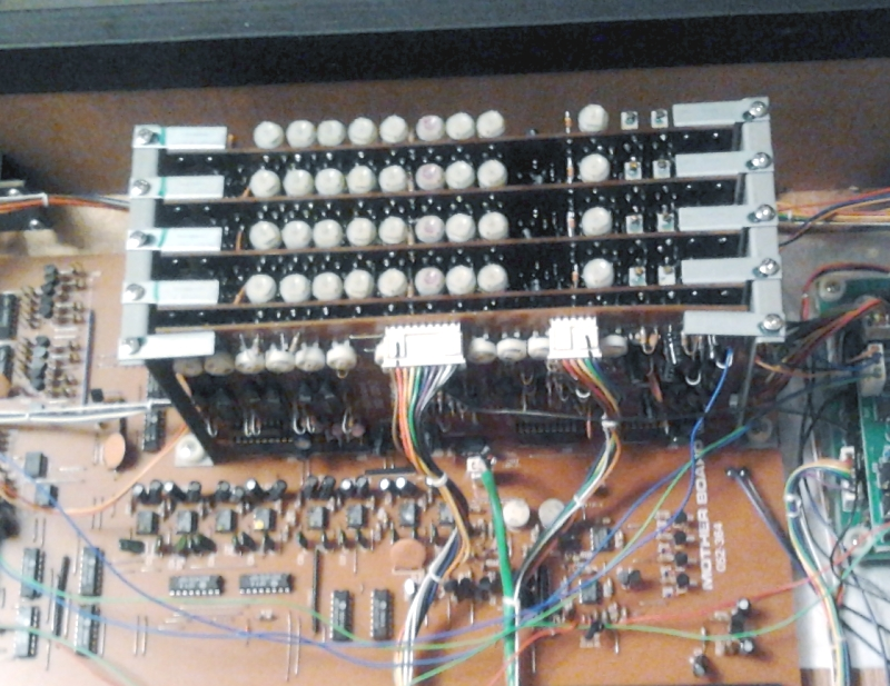 Version E Voice Module boards that are contained in a Roland Jupiter 4 for Serial Numbers XX4100 and above, refer to diagram, page 30 of the Service Notes, 2nd Ed., Feb 23, 1981. Revision E voice boards were the last version made and use the Roland IR3109 filter IC and can be identified by the one extra trim potentiometer.